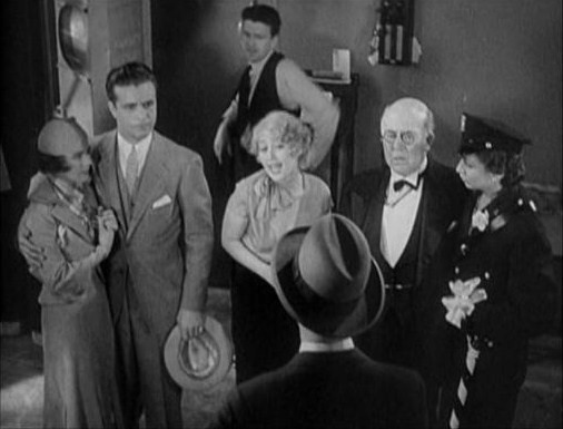 Frame from public domain trailer for 1933 Warner Bros. film Gold Diggers of 1933 showing Ruby Keeler, Dick Powell, Joan Blondell, Guy Kibbee and Aline MacMahon